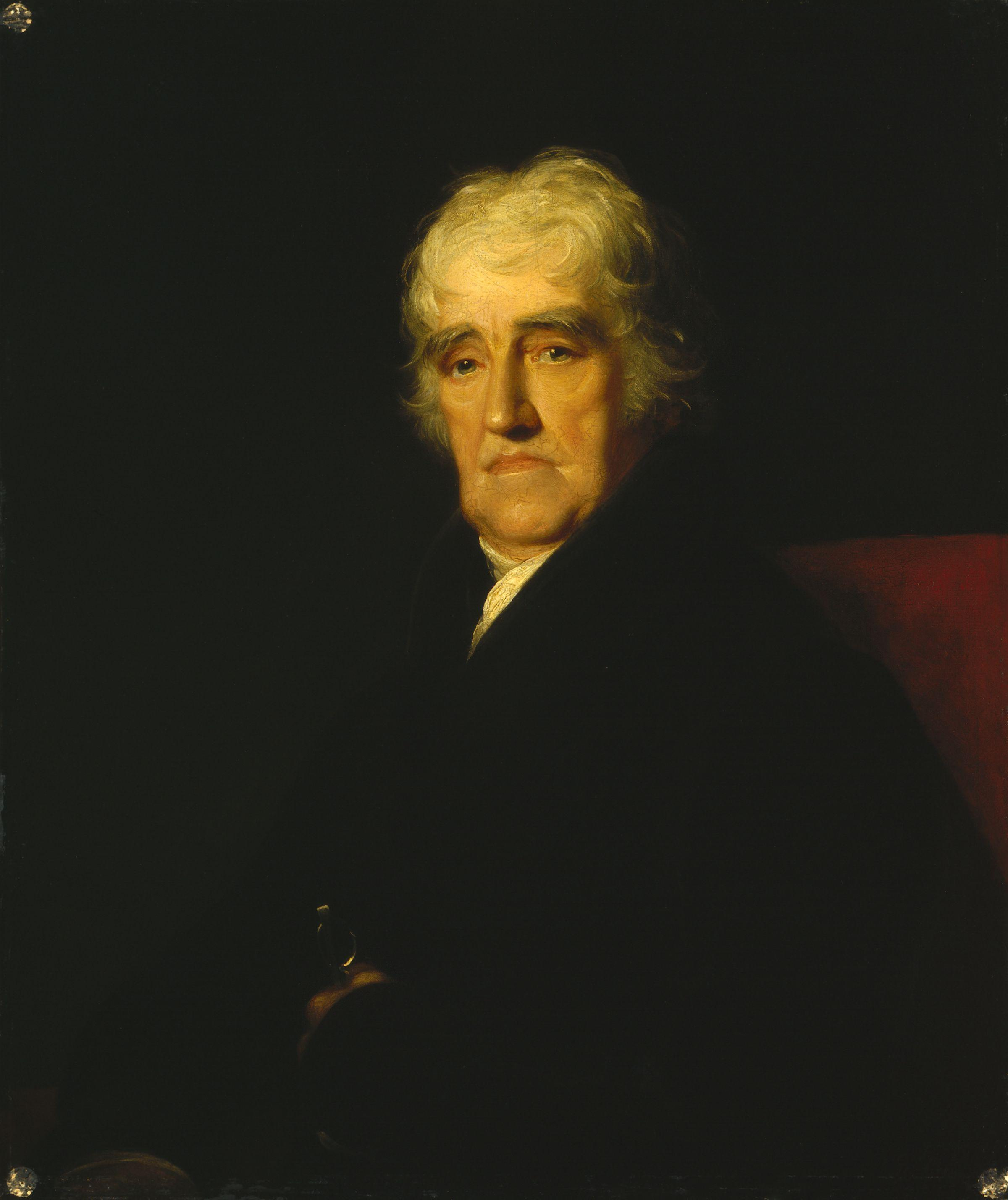 Thomas Stothard, by James Green (died 1834), given to the National Portrait Gallery, London in 1857. All images in this batch have been confirmed as author died before 1939 according to the official death date listed by the NPG.